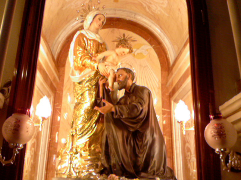 Patron Saint of Hamrun, Saint Cajetan